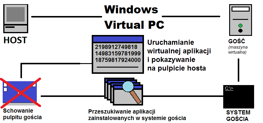 A diagram of Windows XP Mode work